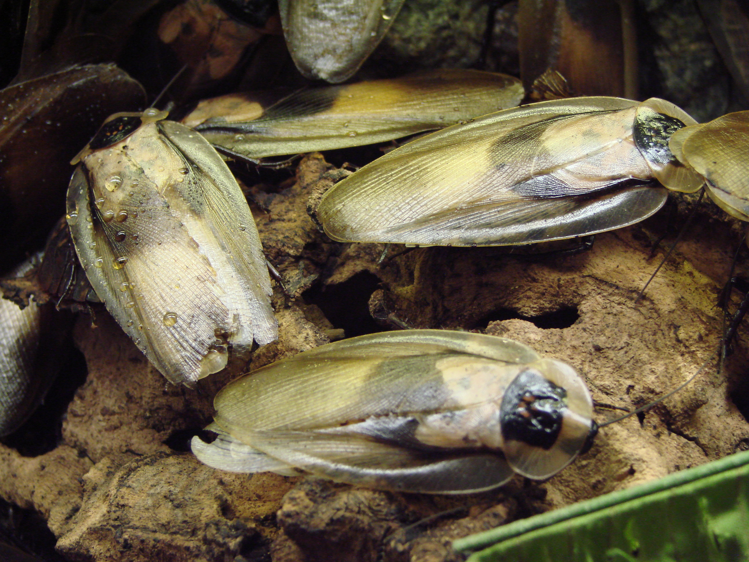 Picture taken in the zoo of Wrocław (Poland): Blaberus giganteus (Linnaeus, 1758))